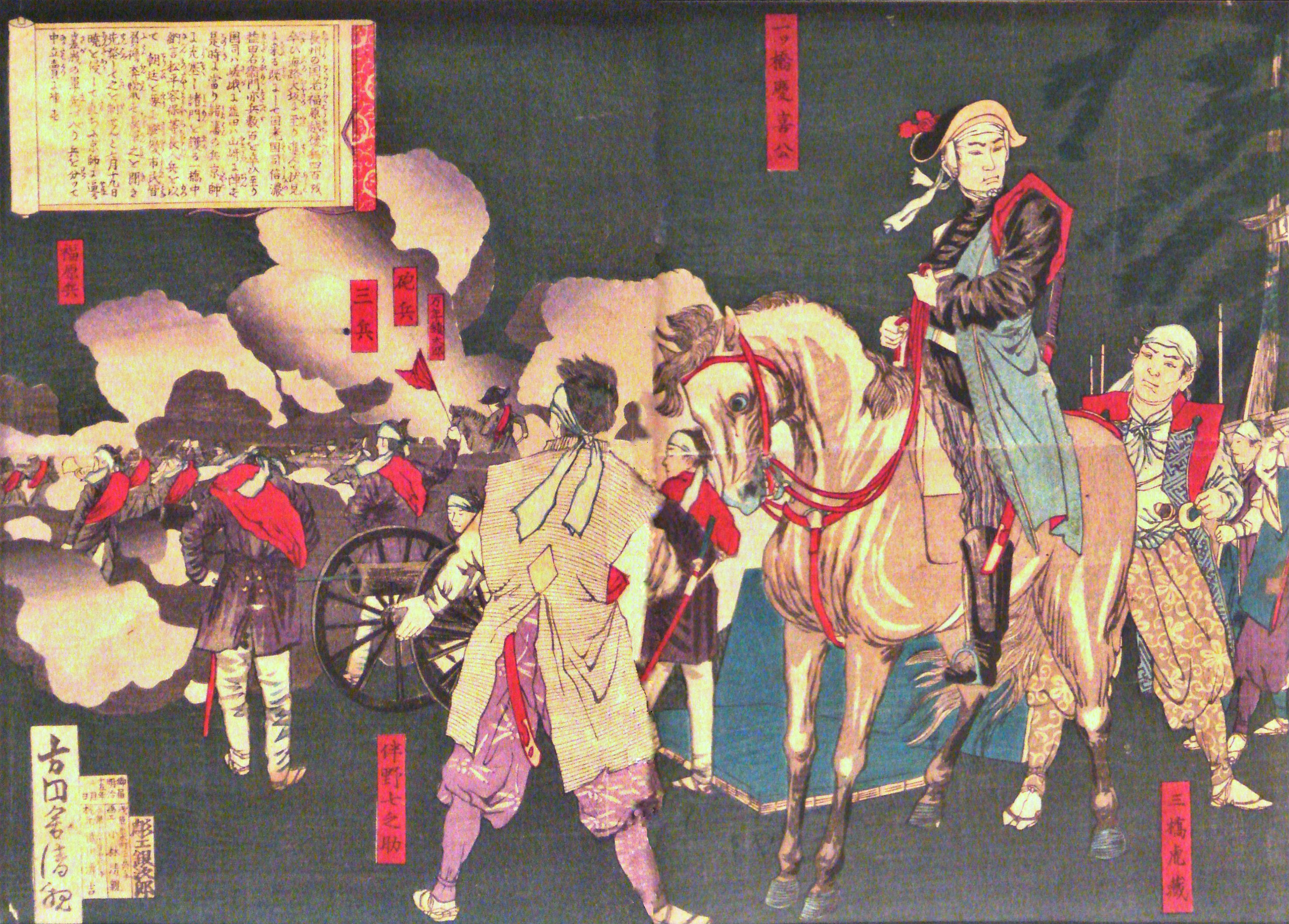 Tokugawa_Yoshinobu_organizing_defenses_at_Osaka_castle